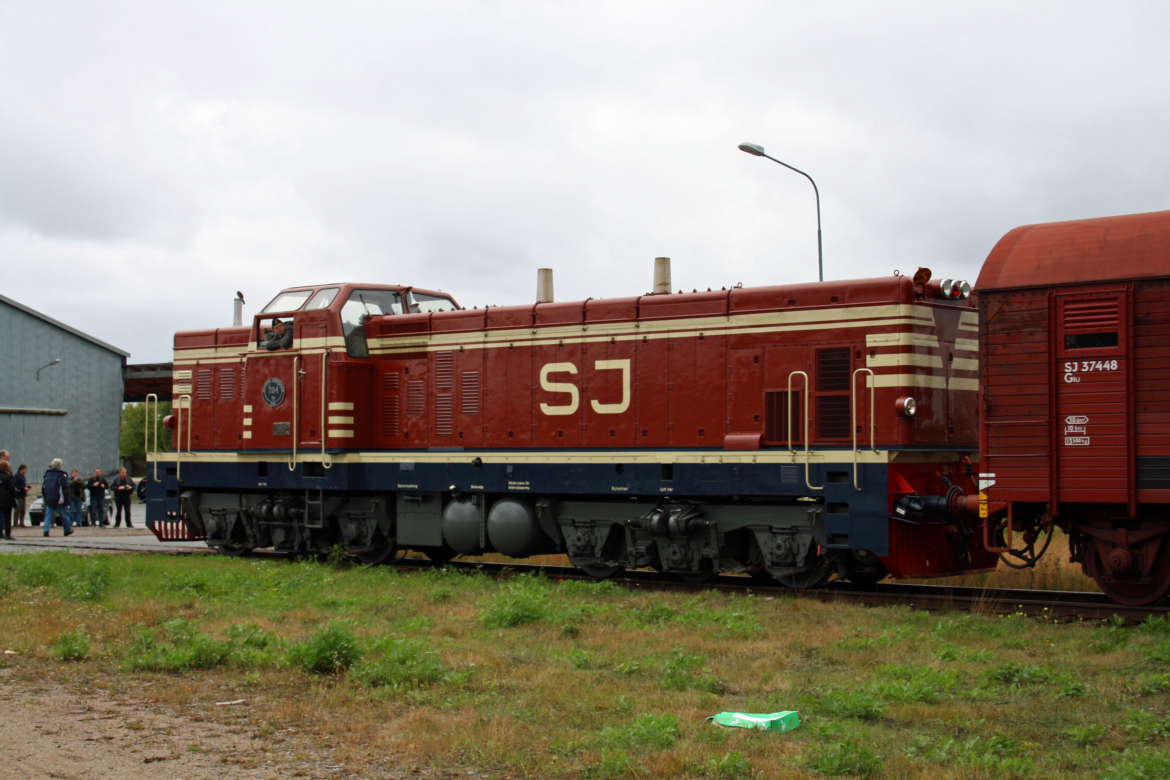 Swedish diesel locomotive T41 204 in Krarlsborgsbruk, 2012.